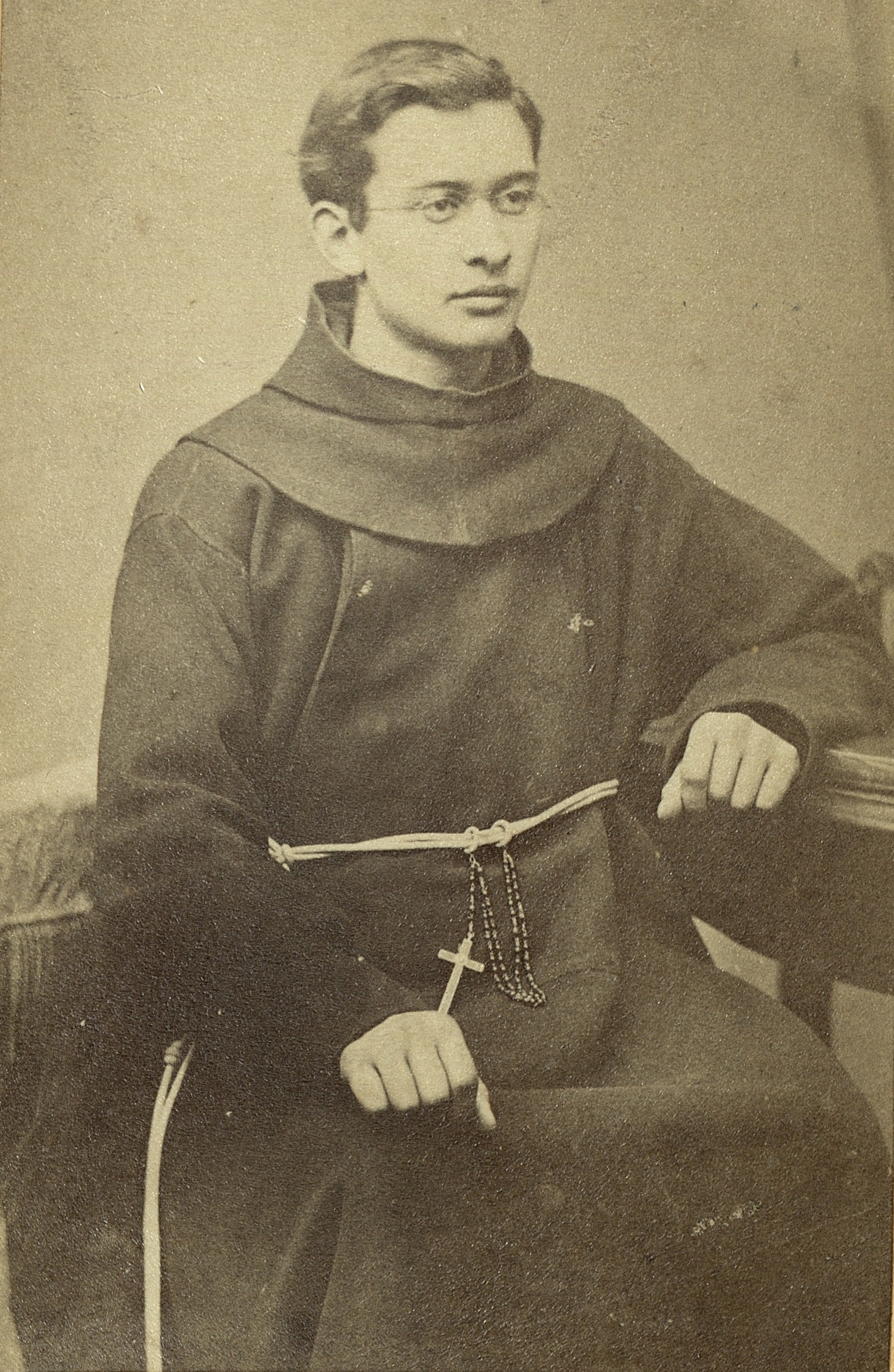 Hugolin Sattner (1851-1934), slovene composer and priest